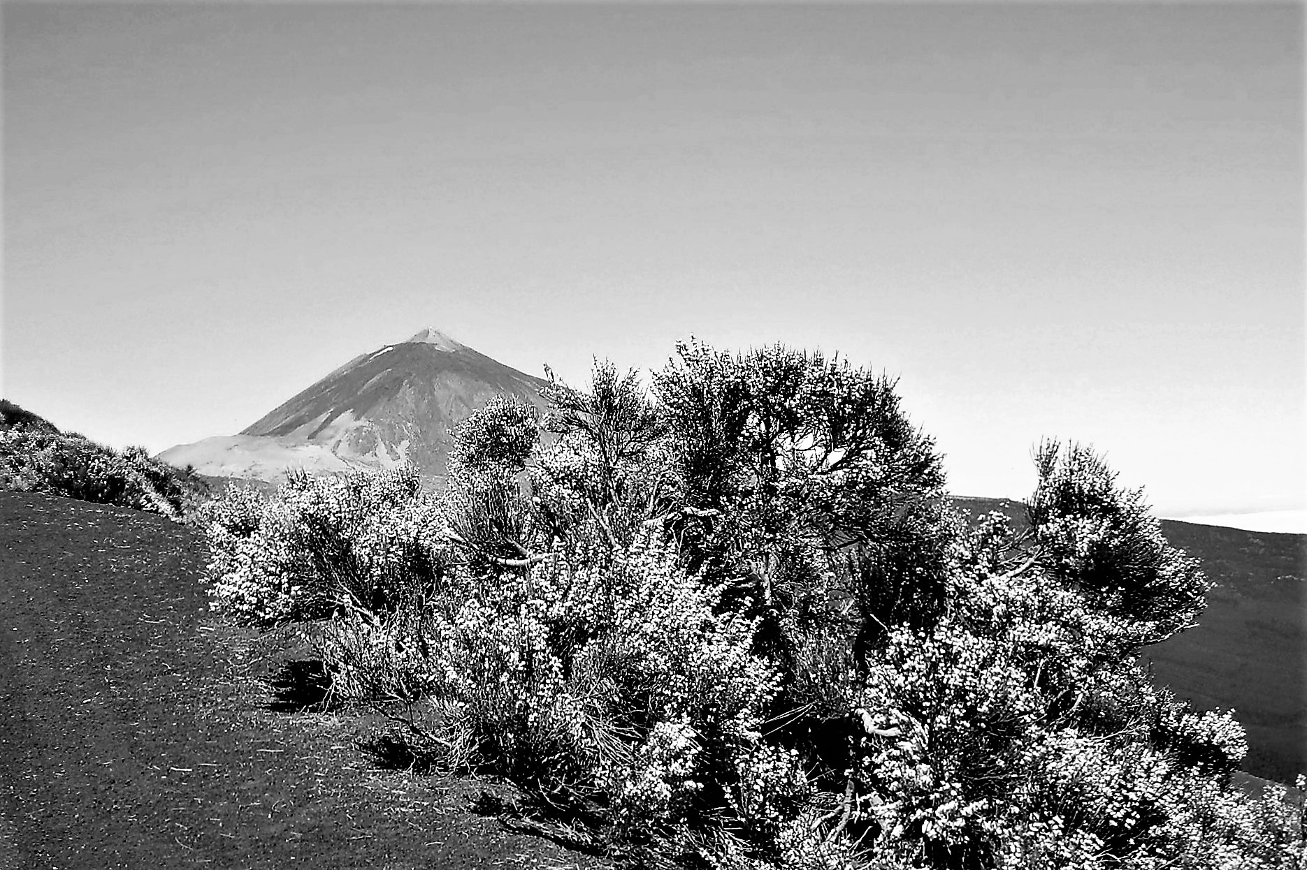 Peak of El Teide - Tenerife, Canary Islands